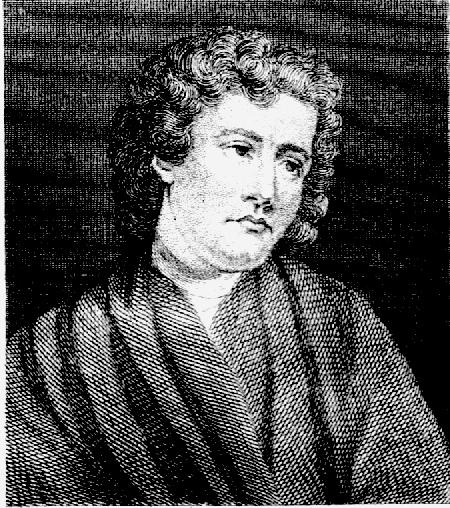 18th century portrait of Eugene Aram, from The Newgate Calendar.